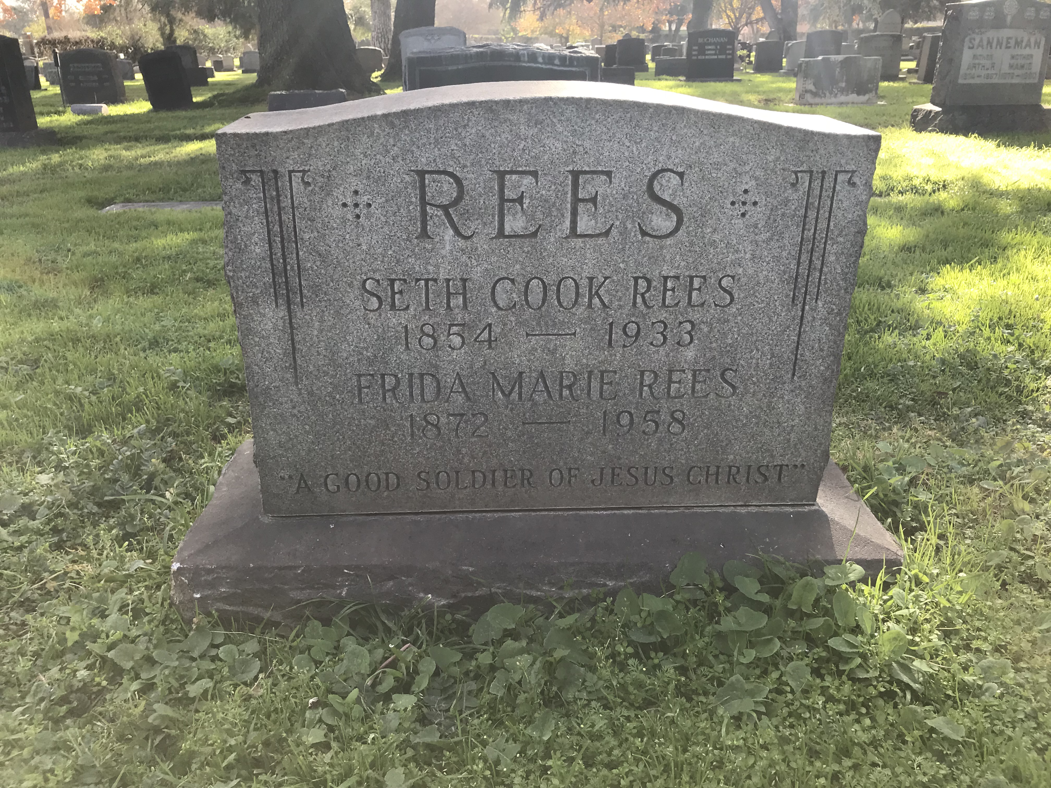 Grave of Seth Cook Rees & Frieda Marie Rees, Mountain View Cemetery, Altadena, California